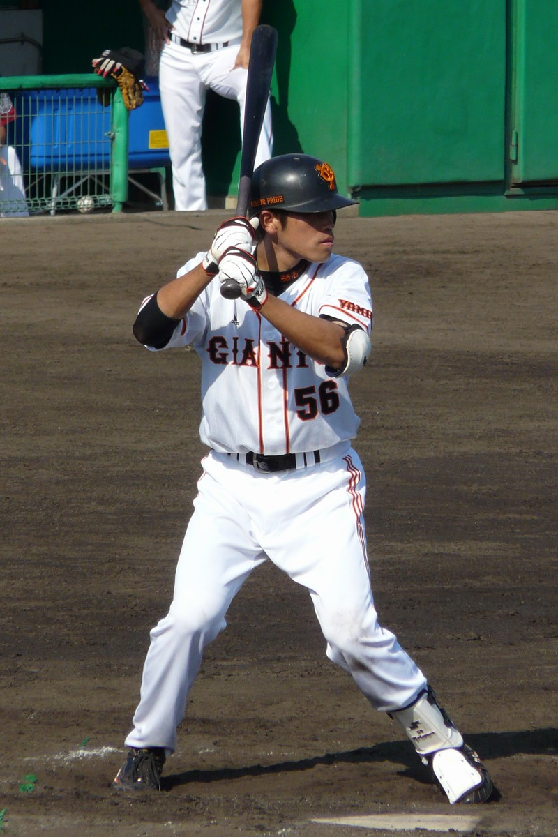 Hiroki Nakazawa, infielder of the Yomiuri Giants, at Yokkaichi Kasumigaura Baseball Stadium.